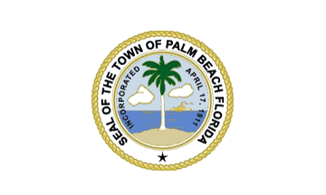 Flag of Palm Beach, Florida